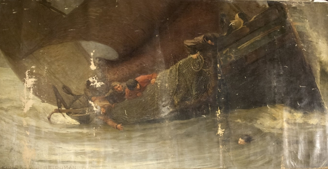 Rescue of a Youth Fallen Overboard from a Fishing Boat, 1888, by George Brant Bridgman